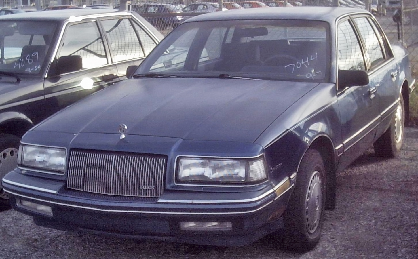 1988-1989 Buick Skylark photographed in Montreal, Quebec, Canada.